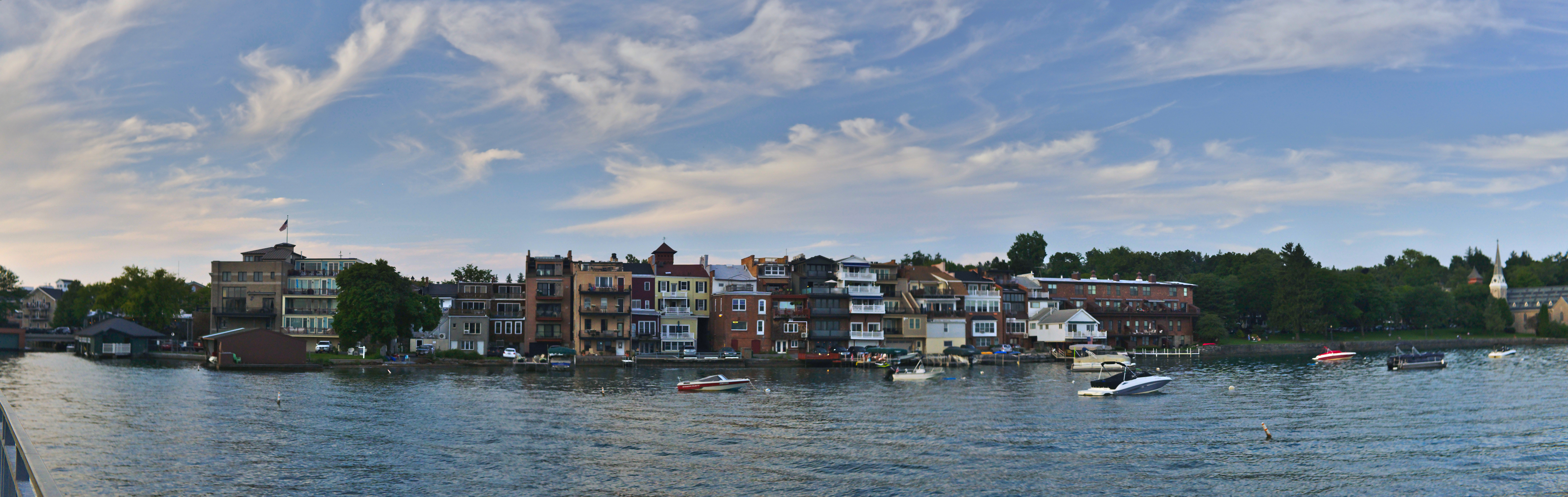 Panorama of Skaneateles lakefront stitched together with Hugin.